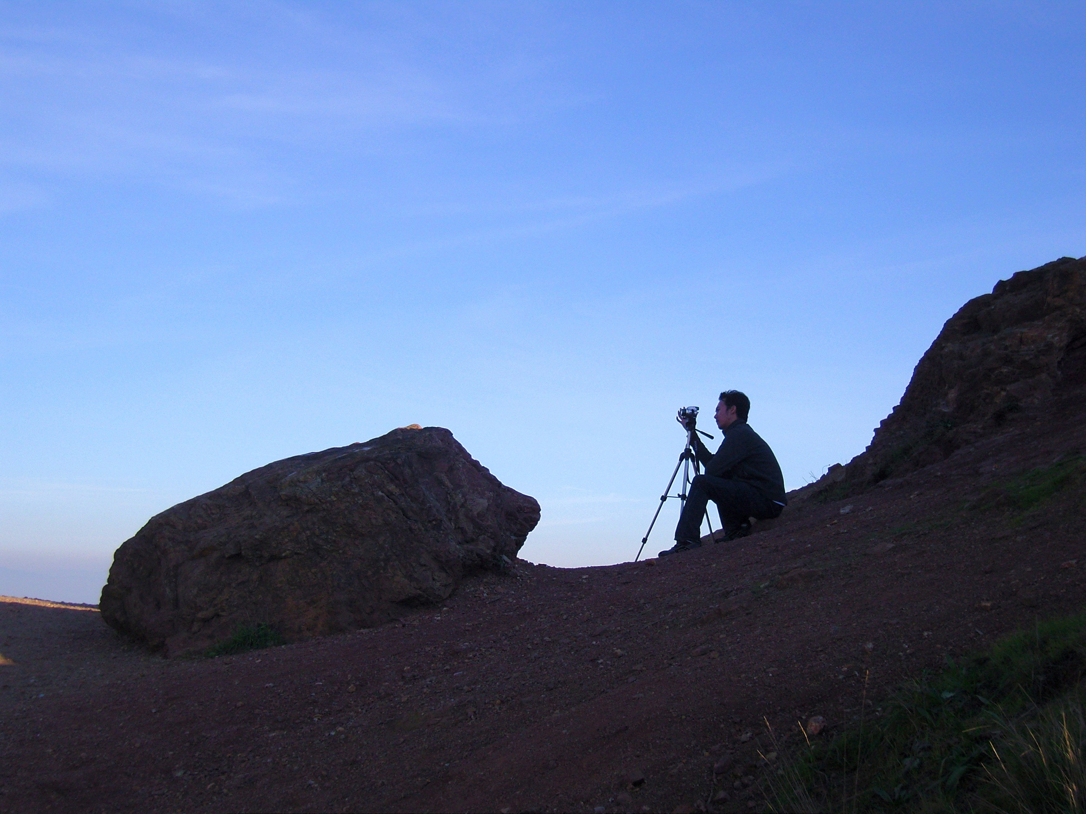 Corona Heights Park, San Francisco, California.